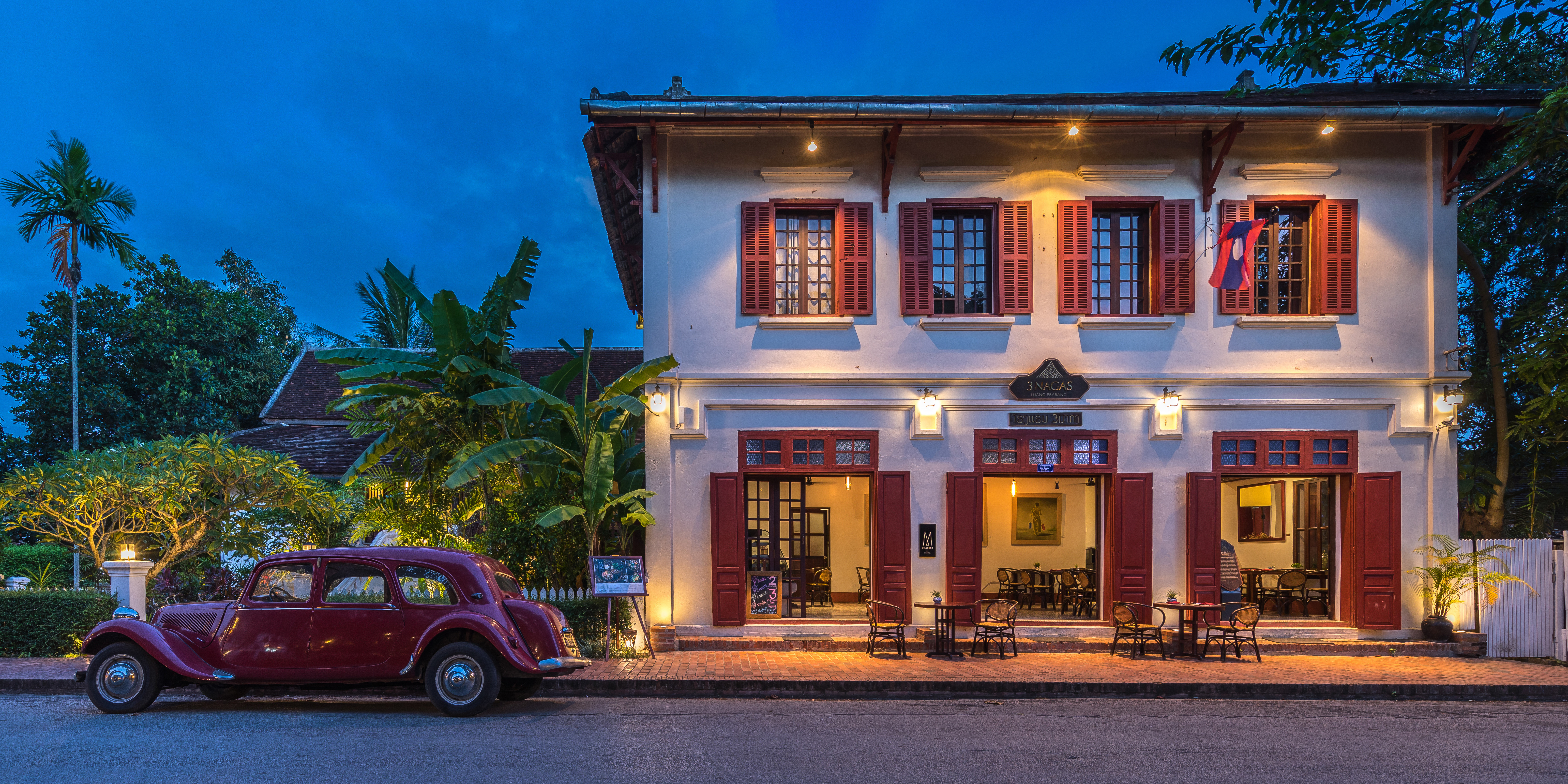 Hotel 3 Nagas with an old red Citroën Model 11 Family version (1952) at blue hour in Luang Prabang, Laos